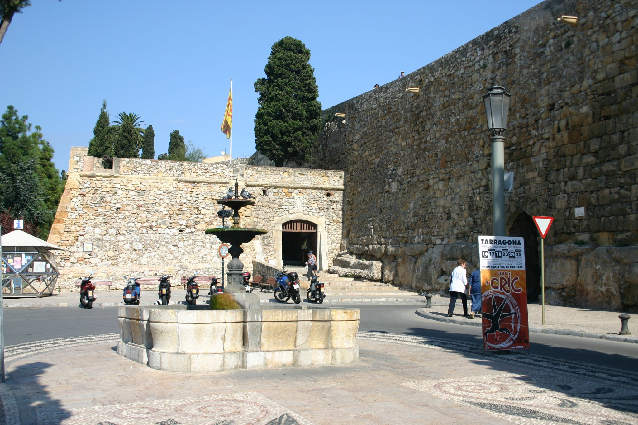 Tarragona, wall.